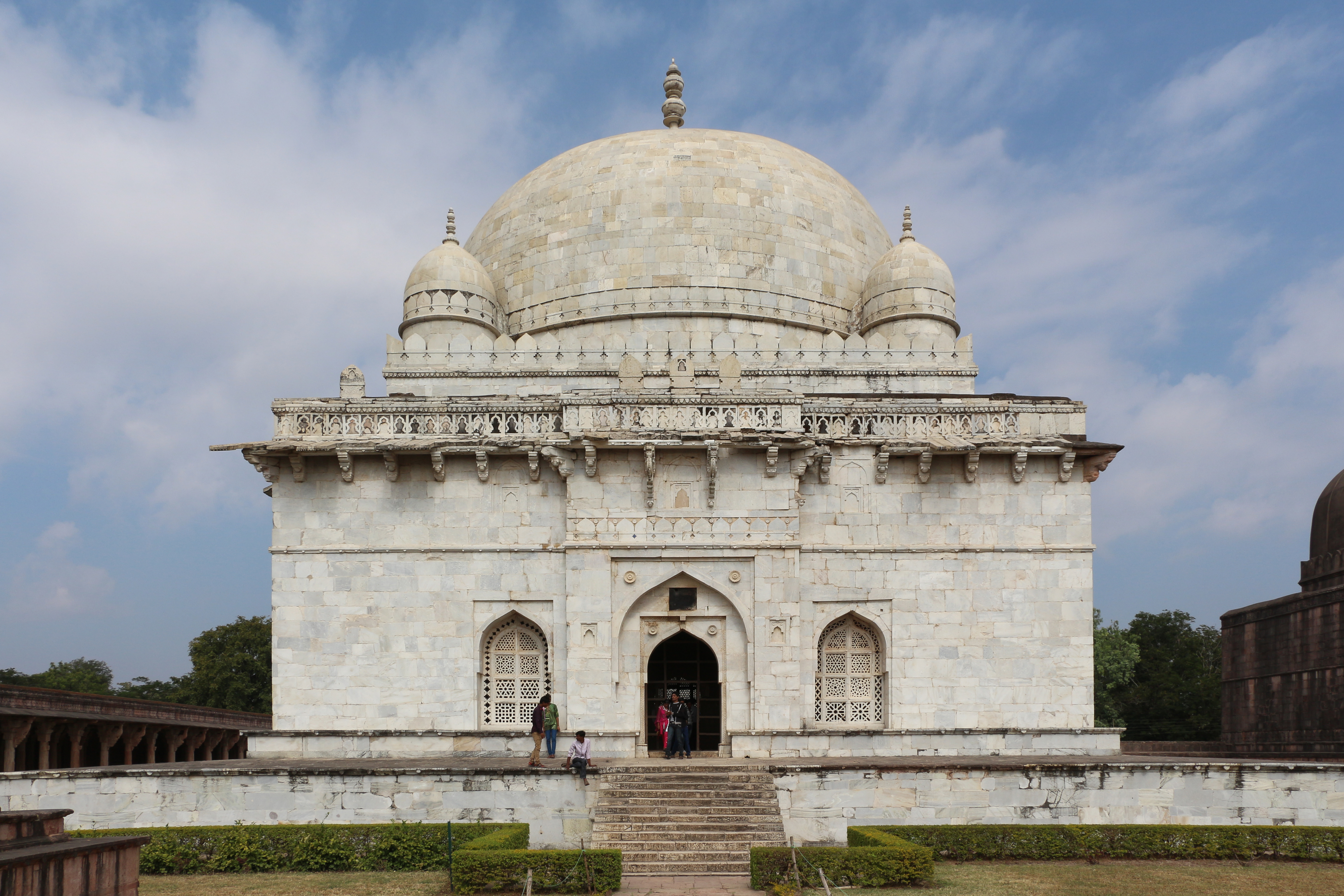 Mausoleum of Hoshang Shah, Mandu, India